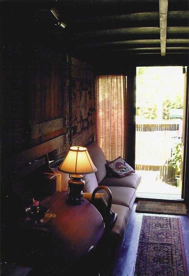 Interior of gypsy home built in 1968 on a 1937 GMC F-16 Chassis. The framework is oak, and the interior is handcrafted in fine woods and leather with antique furniture. It can sleep six (a double bed is located in a loft beneath the dome visible above the cab), and it has a full-sized stove, a sink, a shower, hot and cold running water, a coal burning stove, a living/dining area and a back porch. Originally named "Leviathan," the truck was present on the first day of building People's Park, April 20, 1969. It was also driven, with friends, to a Spring, 1969 love-in on the top of Mount Tamalpais near San Francisco. The Floating Lotus Magic Opera Company, a dance and theater group created by Daniel Moore, traveled in the truck when they lived communally and rehearsed performances on forested land south of San Francisco during the late 1960's. The truck was a regular feature at Renaissance Pleasure Faires in both Northern and Southern California, and it toured most of the West Coast between 1968 and 1971--Los Angeles, Santa Barbara, Big Sur, San Francisco, Berkeley, Mendocino, Portland and Seattle. The truck has been restored and now serves as a guest house.